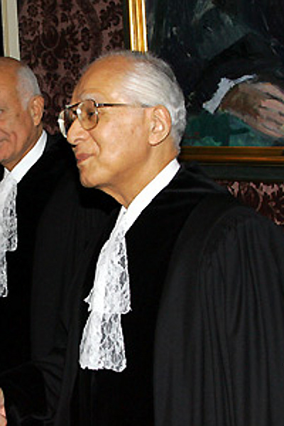 Hisashi Owada at the UN International Court of Justice, The Hague, 2 November 2005.